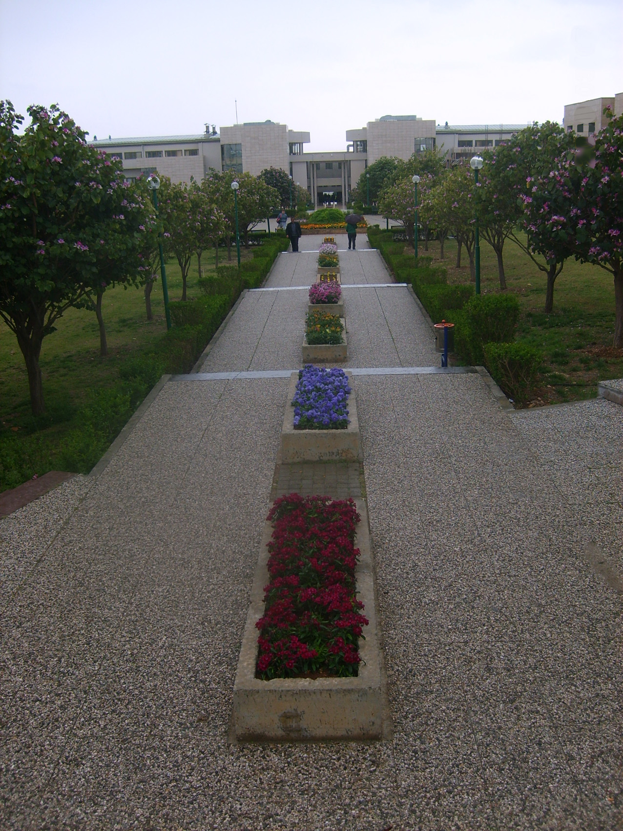 A pedway in the university campus